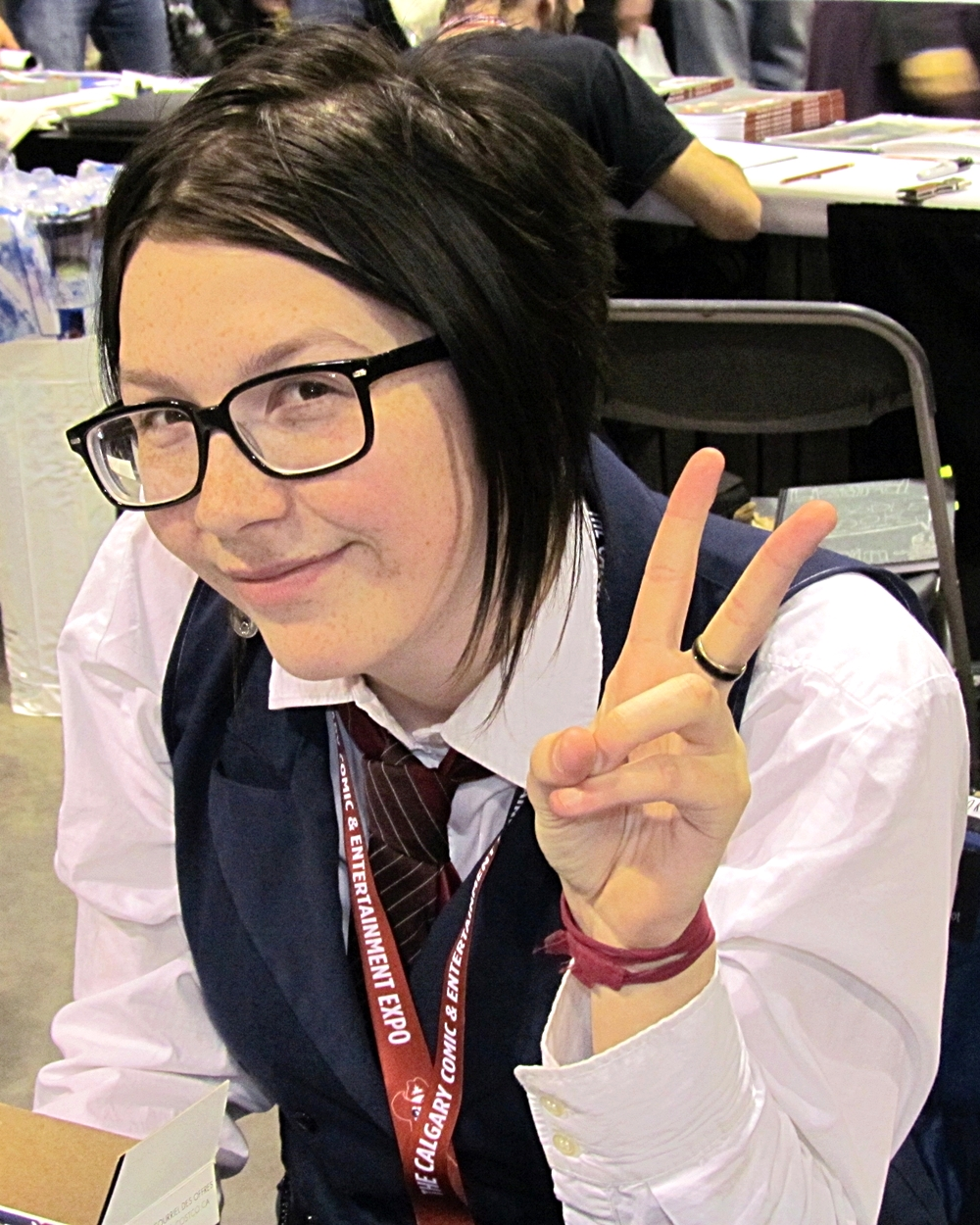 C. J. Lyons is an American physician and writer of medical suspense novels. Photo taken at the Calgary Comic and Entertainment Expo, BMO Centre, Calgary, Alberta, Canada.